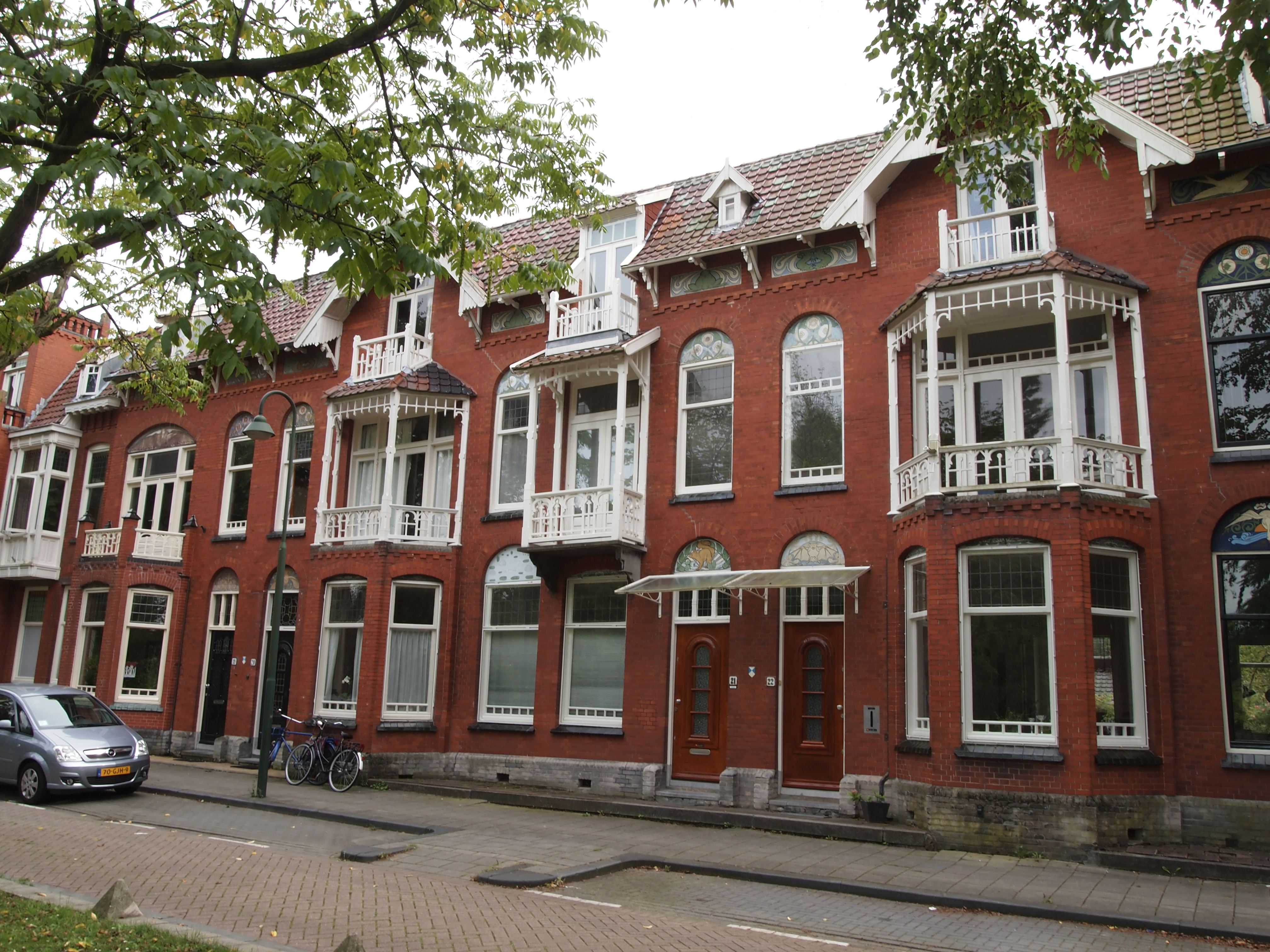 House from about 1905 in Gouda nl. Styl: Jugendstil This street is named after Hieronymus van Beverningh